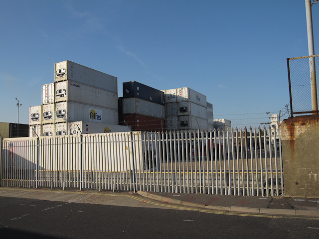 Anyone for bananas? Stacks of refrigerated Fyffes containers.